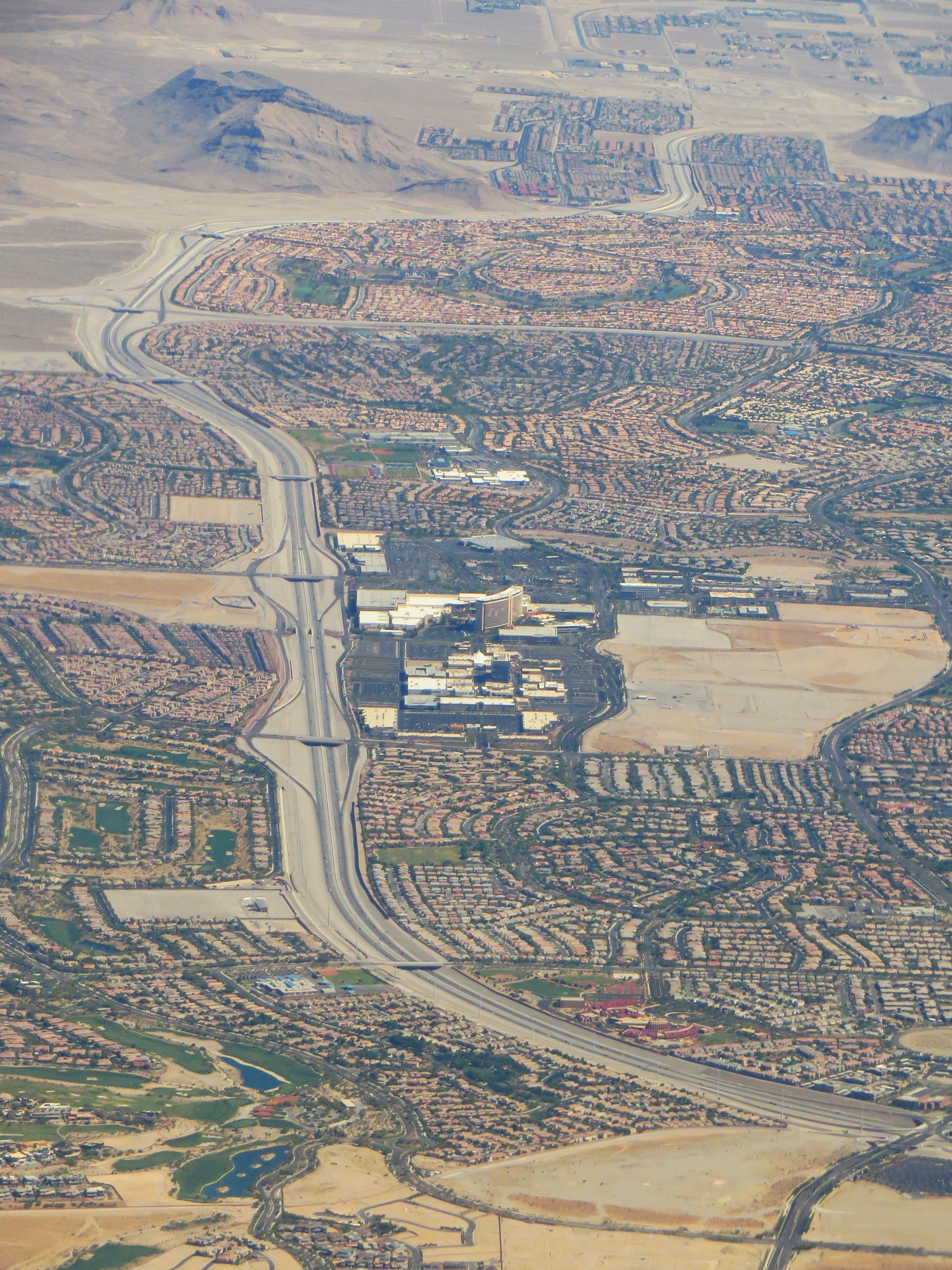 Red Rock Resort is a hotel and casino. It is owned and operated by Station Casinos on 70 acres (28 ha) located in Downtown Summerlin in the village of Summerlin Centre in Summerlin, Nevada. Located on Charleston Boulevard, at the interchange of Clark County 215, and some distance from the Las Vegas Strip, the resort is known as a locals casino. It is the flagship property of Station Casinos and the company's corporate headquarters is located on property. The resort includes a 198 ft (60 m) hotel tower with 815 rooms, spa, 94,000 sq ft (8,700 m2) of meeting space, slot machines, table games, a 16 screen Regal Cinemas movie theater, a bingo hall, a 3 acres (1.2 ha) pool area, a bowling alley as well as eleven restaurants. The tower is the second tallest in Summerlin after One Queensridge Place.